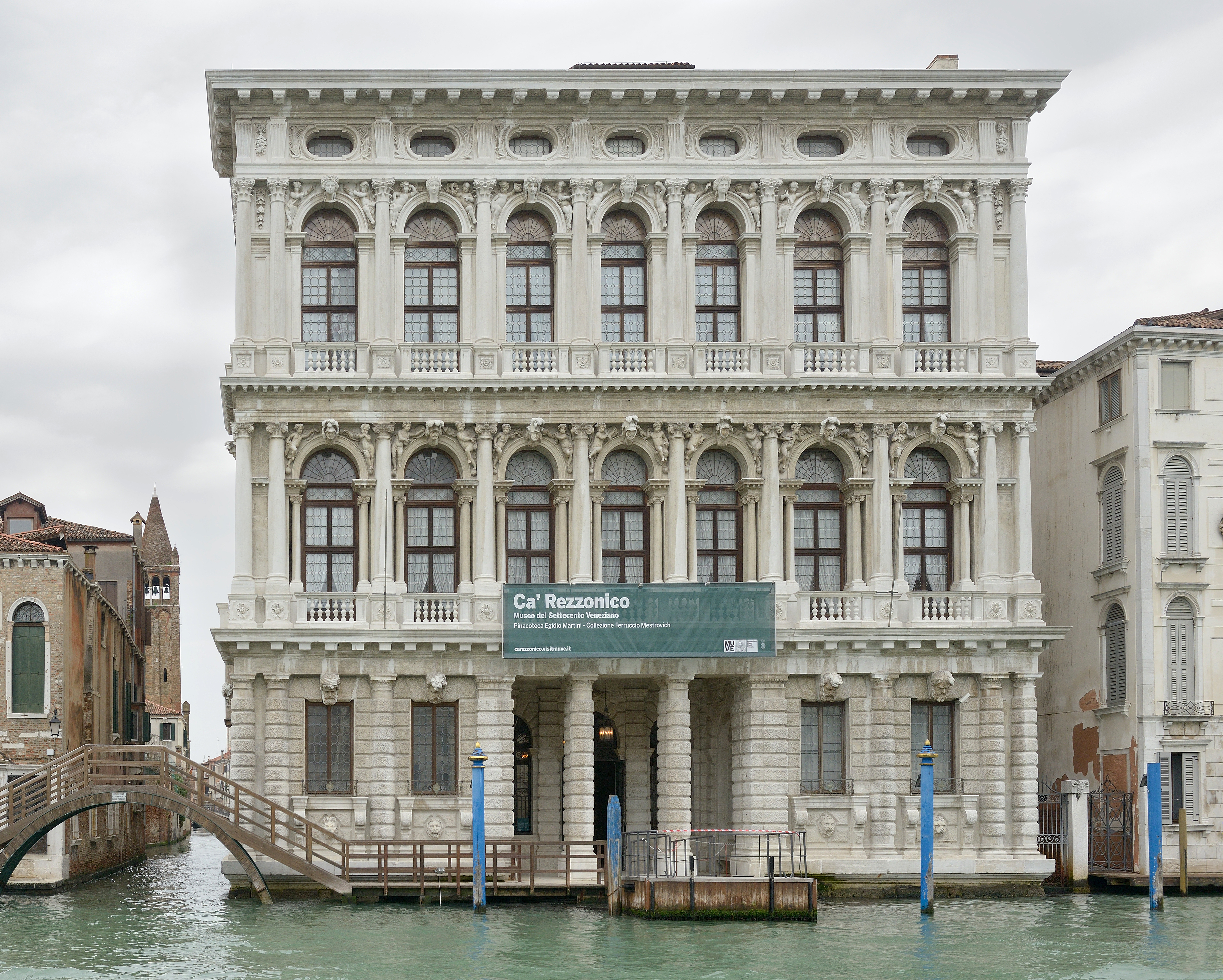 Ca' Rezzonico on the Canal Grande in Venice